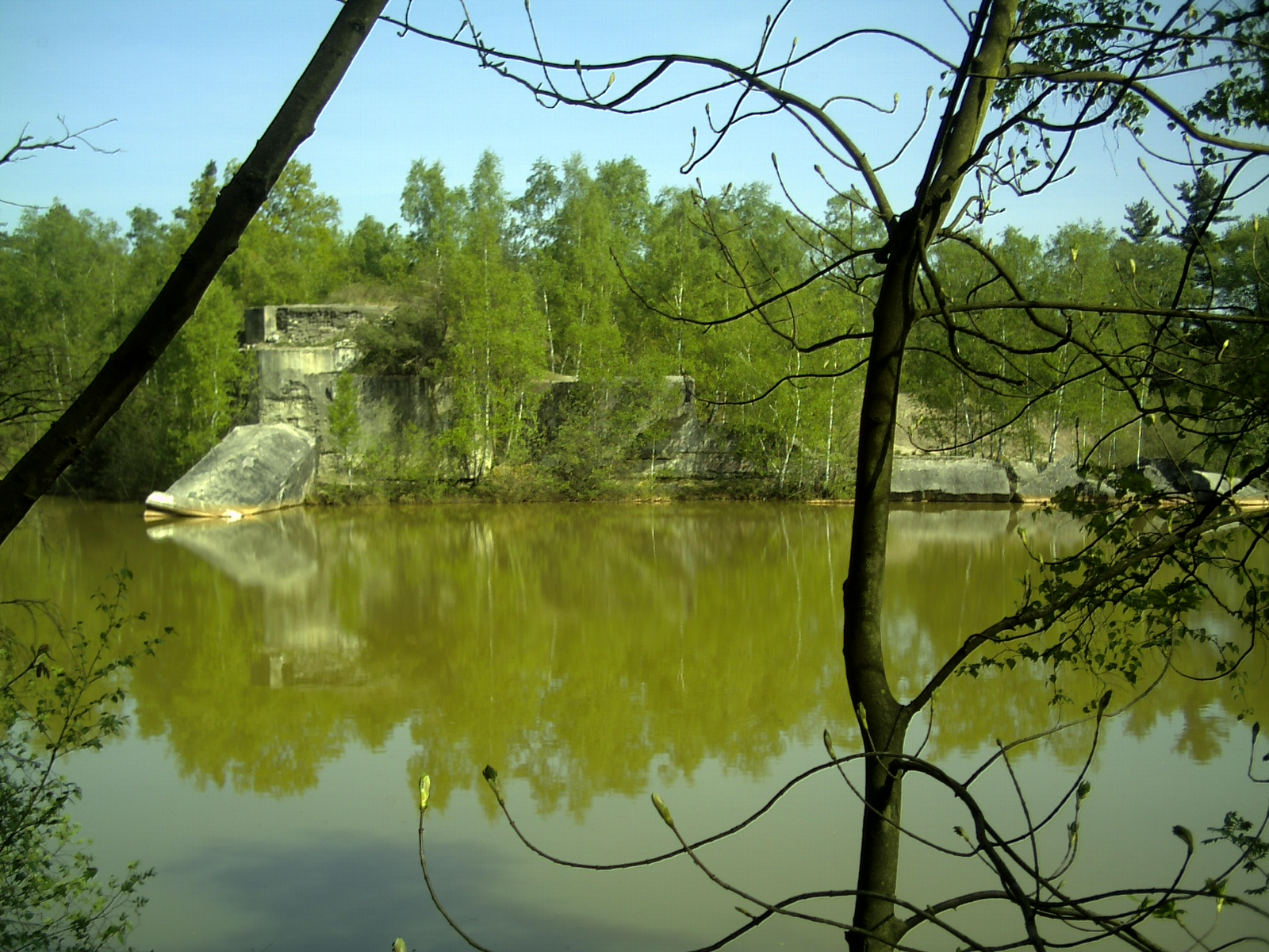 Destroyed left wing of fortress of Brasschaat, Brasschaat, Belgium.